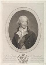 Portrait of Henry Scott, 3rd Duke of Buccleuch